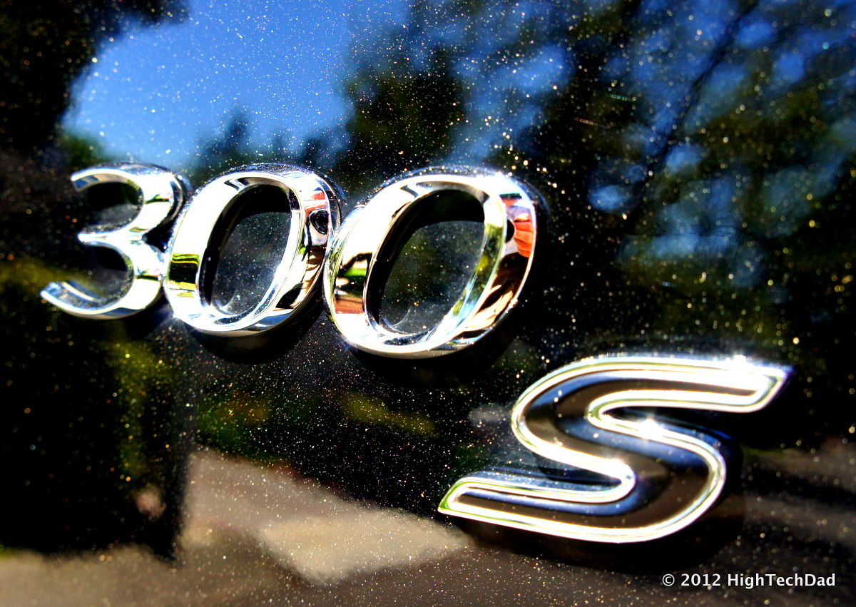 Photos from a 10-day test drive of the 2012 Chrysler 300S.